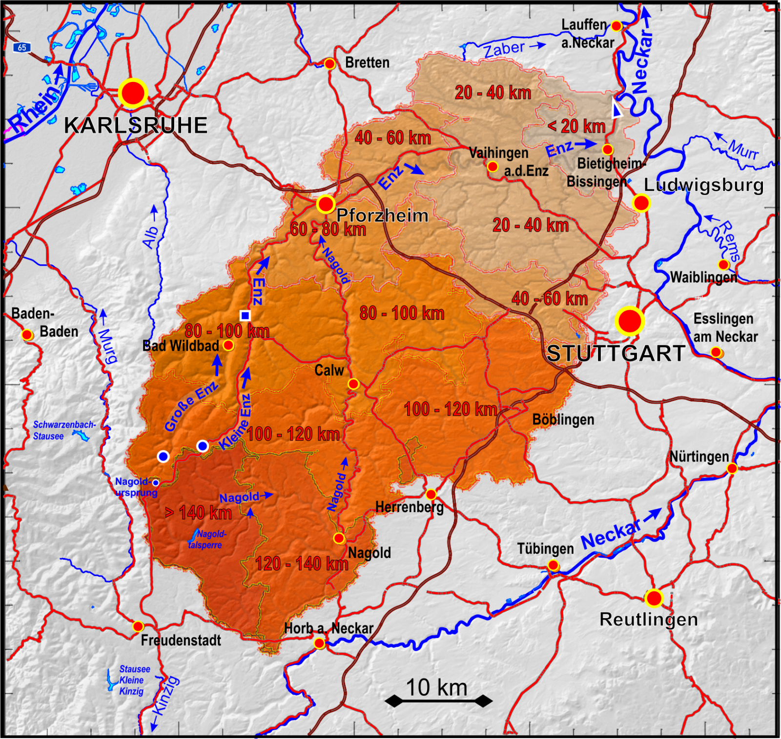 Flow length in the river Enz drainage system